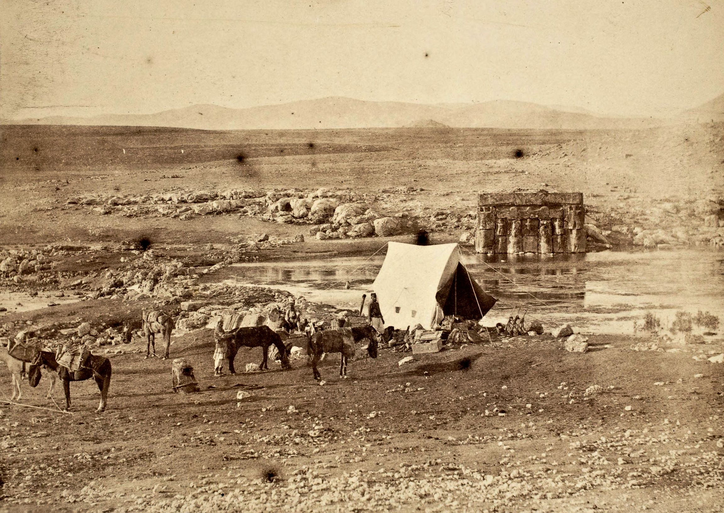 General view of monument and spring of Eflatun Punar in Lycaonia. from: Robert G. Ousterhout: John Henry Haynes - A Photographer and Archaeologist in the Ottoman Empire 1881–1900 S. 89 ISBN 978-605-62429-0-8